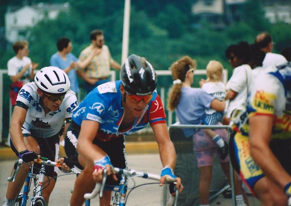 Dan Fox (USA) of Poland Spring-Tommasini team (L) follows John Tomac (USA) of Motorola Cycling Team (C) and an unknown Coors Light rider (R) onto Grandview Avenue at the 1991 Thrift Drug Classic